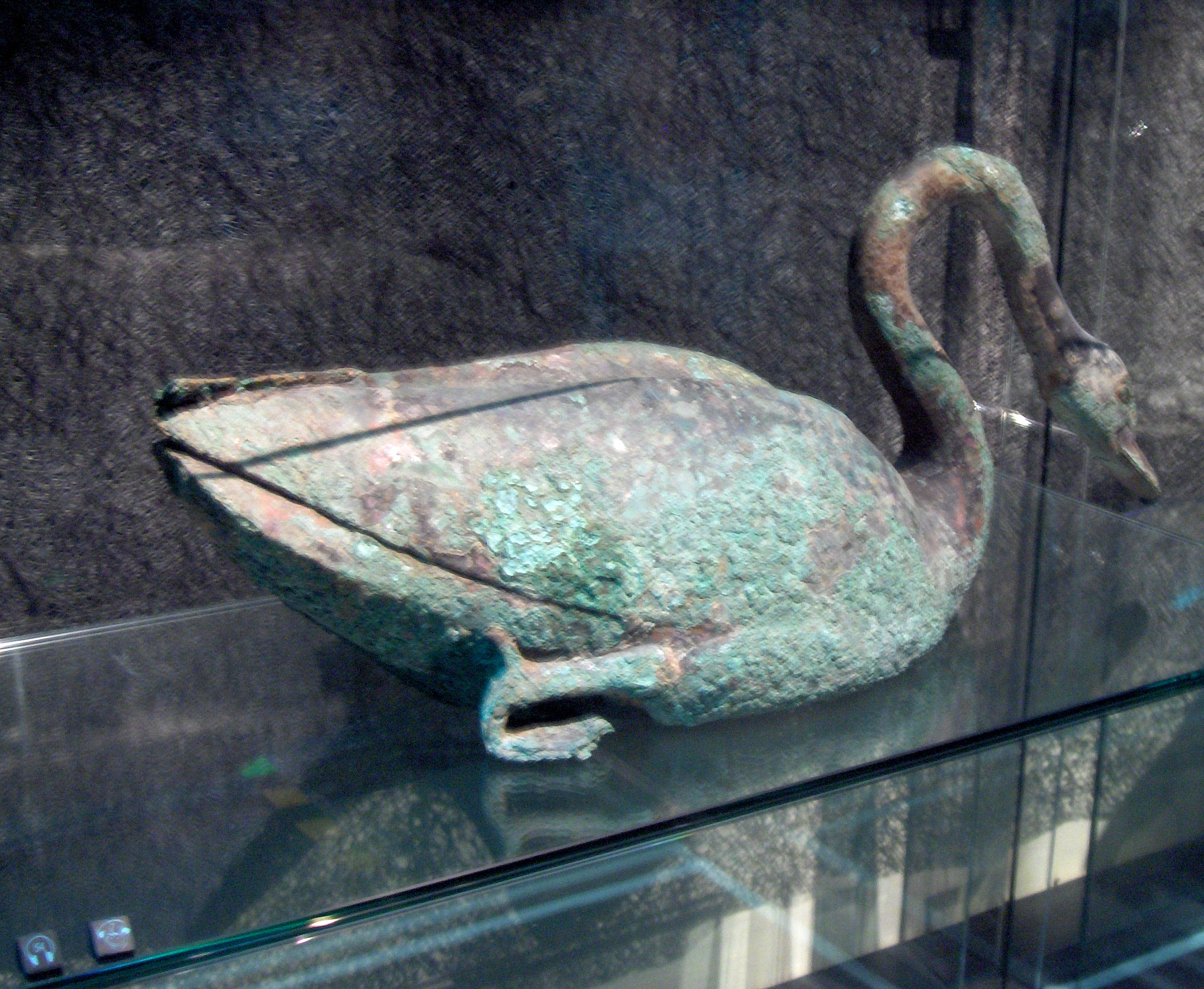 Bronze swan, Lintong, Qin dynasty